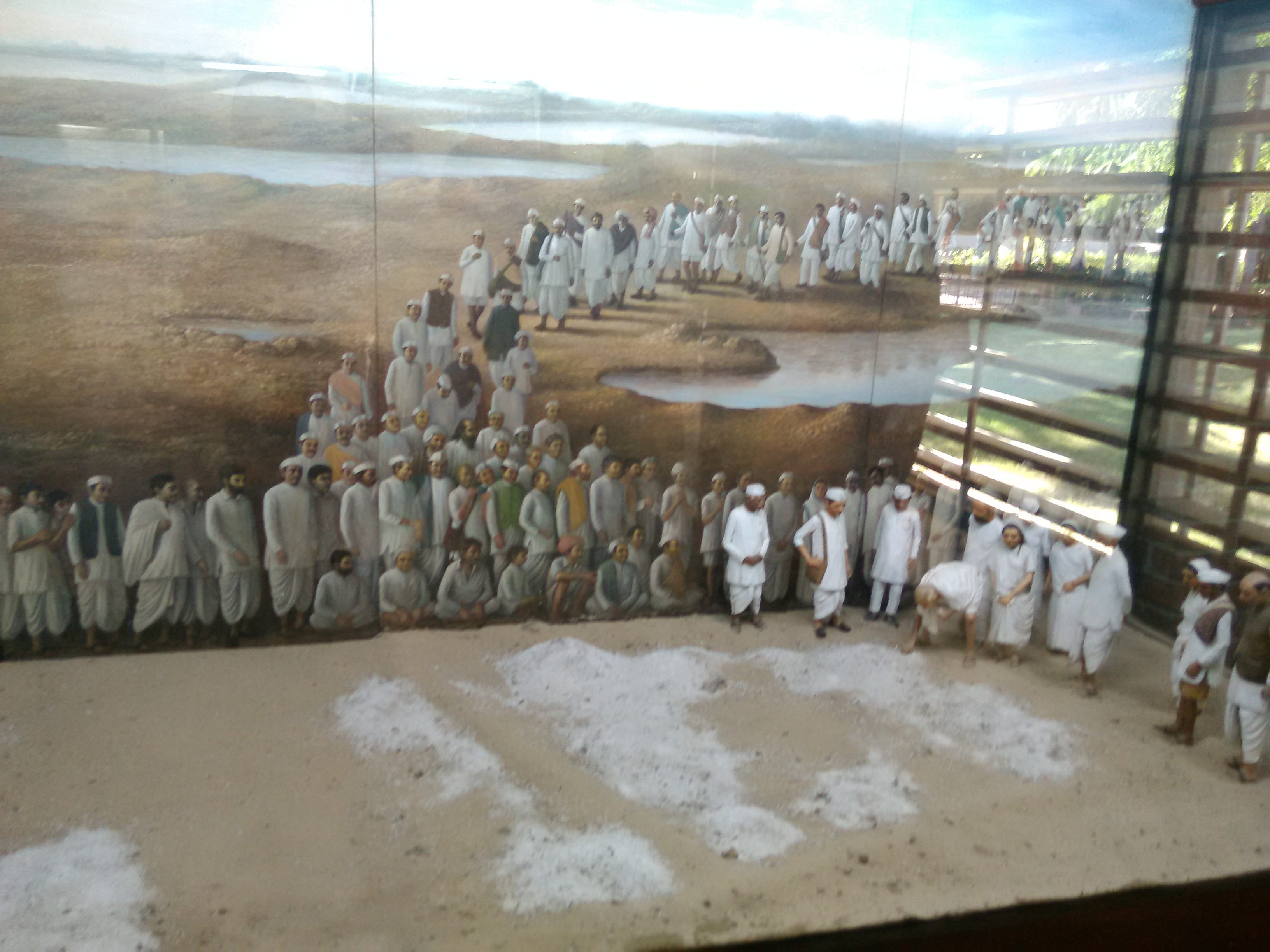 ଓଡ଼ିଆ: labana Satyagraha by Gandhiji has been a remarkable chapter in freedom struggle with the Britishs . Although our coasts produced salt aplenty , britishers forbade the use of it , so that t5hey can sell salt imported from their country . Gandhiji launched a massive movement to protest against this british law and disobeying the law he marched to Dandi to lauch labana satyagraha . This is a 2D/3D sulpture at Gandhi Memorial , Sabaramati Ashram , Ahamadaabad to remember the occasion .